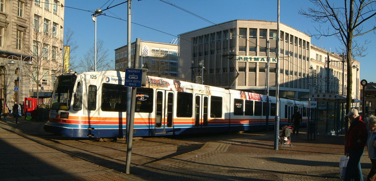 Personal photograph taken by Mick Knapton 14:44, 7 December 2005 (UTC) on 7th December 2005